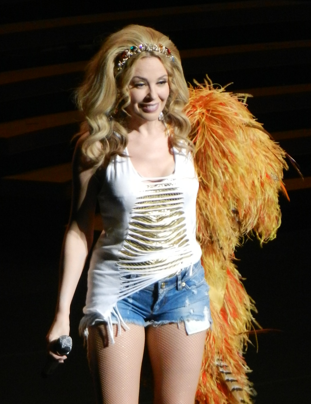 Kylie Minogue, Live Bell Center, Aphrodite Live Tour, Nikon S9100, Montreal, 28 April 2011 (212)